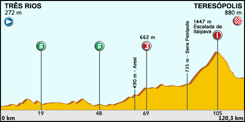 Profile of the 3rd stage of the 2013 Tour do Rio